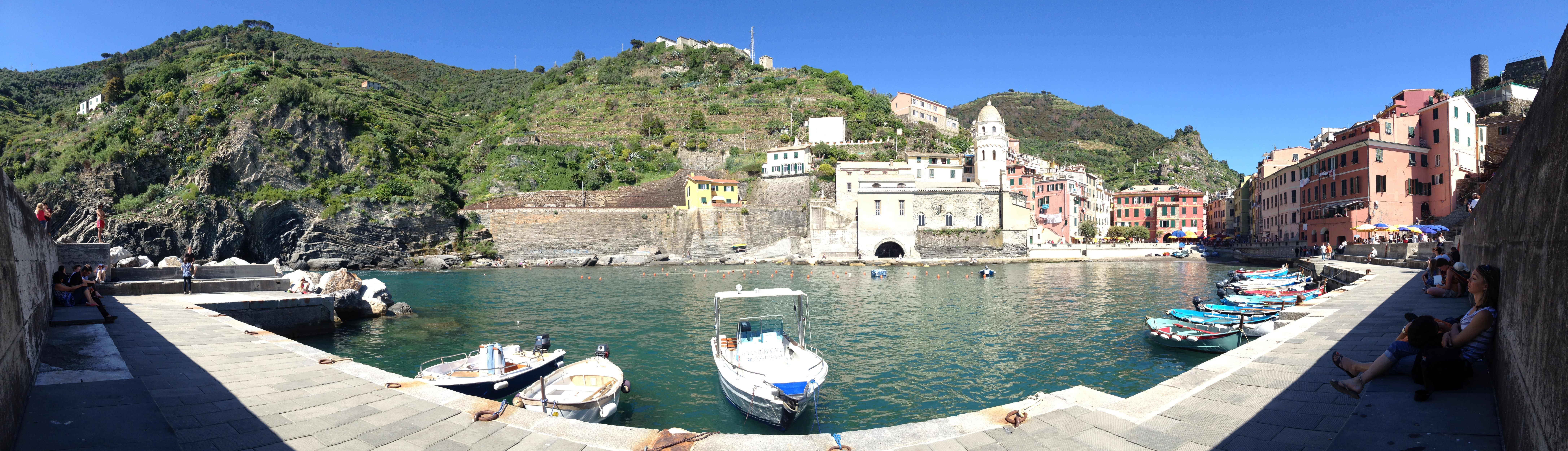 Vernazza, Liguria